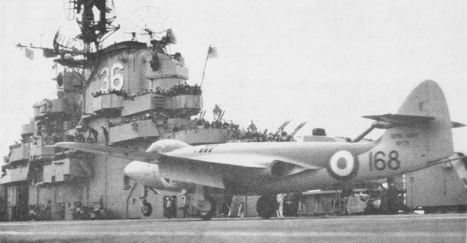 A Hawker Sea Hawk of No. 806 squadron (probably s/n WF168), Royal Navy, Royal Naval Air Station Brawdy, South Wales (UK), making a touch-and-go landing on the U.S. aircraft carrier USS Antietam (CVA-36). The Sea Hawks and other Royal Navy aircraft conducted trials on Antietam´s angled deck for four days while flying out of Royal Naval Air Station Ford, Sussex (UK), in 1953.